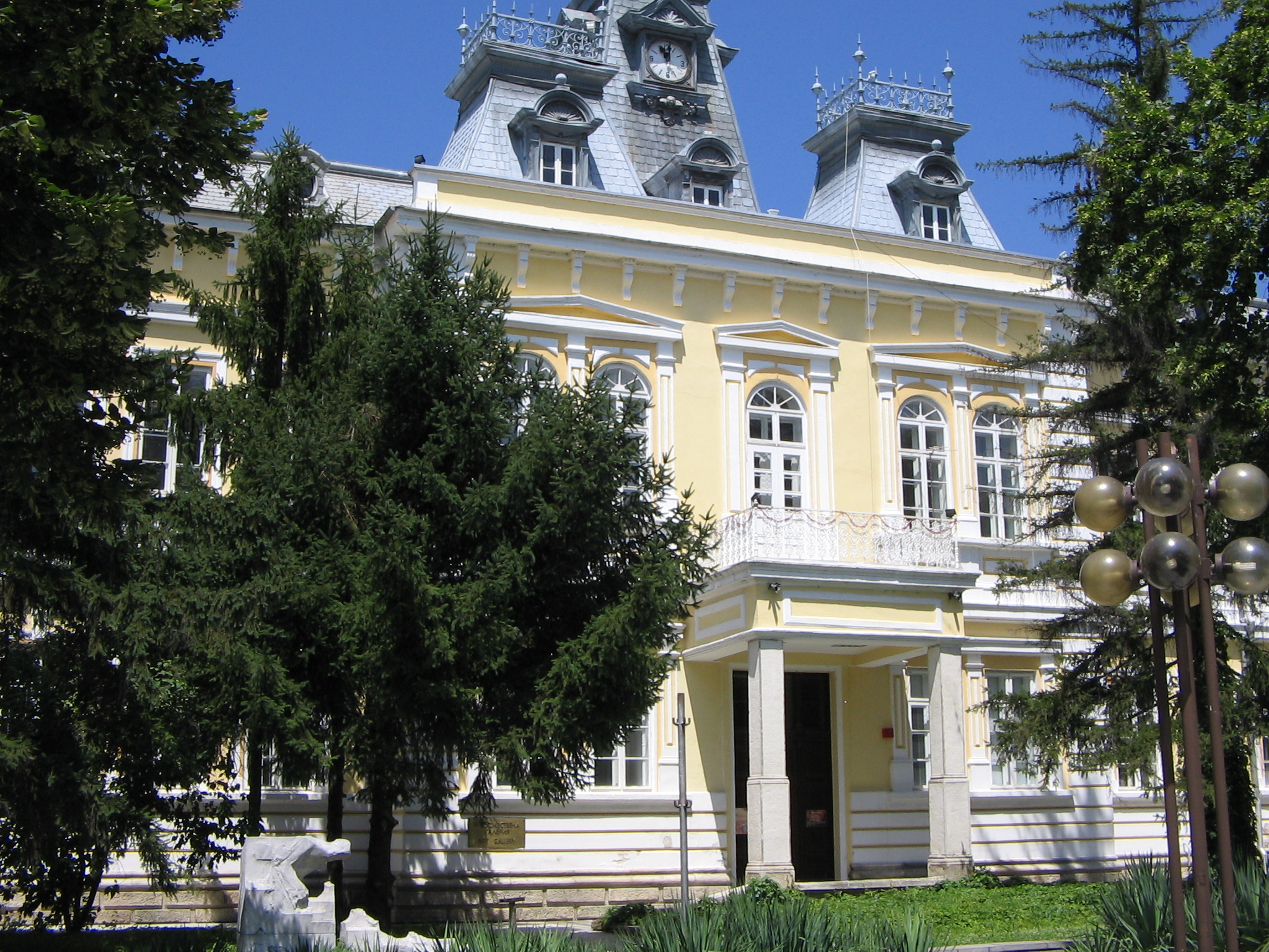 The art gallery in Silistra, Bulgaria